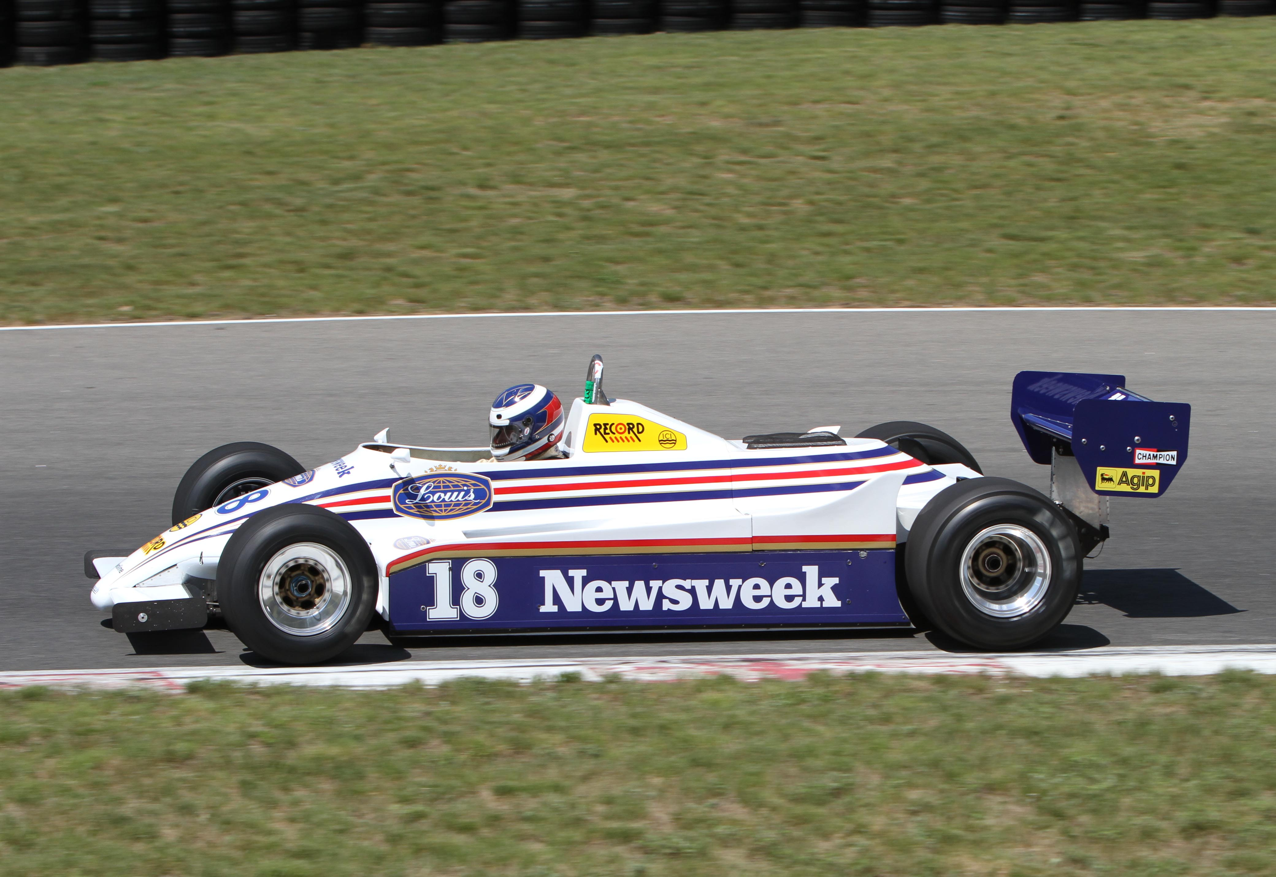 Chris Bender driving a Ram-March 821 Formula One racing car at Circuit Mont-Tremblant, during the 2010 Legends of Motorsport meeting.